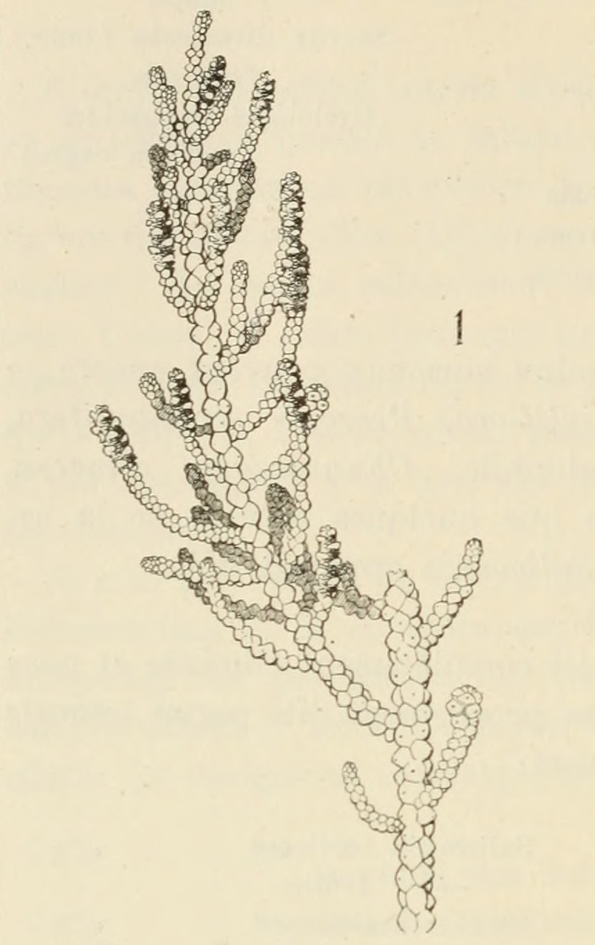 Title: Allenrolfea patagonica (Syn. Halopeplis patagonica) from: Anales del Museo Nacional de Historia Natural de Buenos Aires Year: 1911-1923. (1910s) Authors: Museo Nacional de Historia Natural de Buenos Aires Subjects: Natural history; Natural history Publisher: Buenos Aires : Impr. y Casa Editora "Juan A. Alsina" Text Appearing Before Image: 344 MUSEO NACIONAL DE BUENOS AIRES. Text Appearing After Image: Fig. 14.— Flore des bords des salines 1.—Halopeplis patagonica. 2.—Salicornia corticosa 3.—Frankenia microphylla. 4.—Spirostachys olivascens (1/2 gr. nat.)